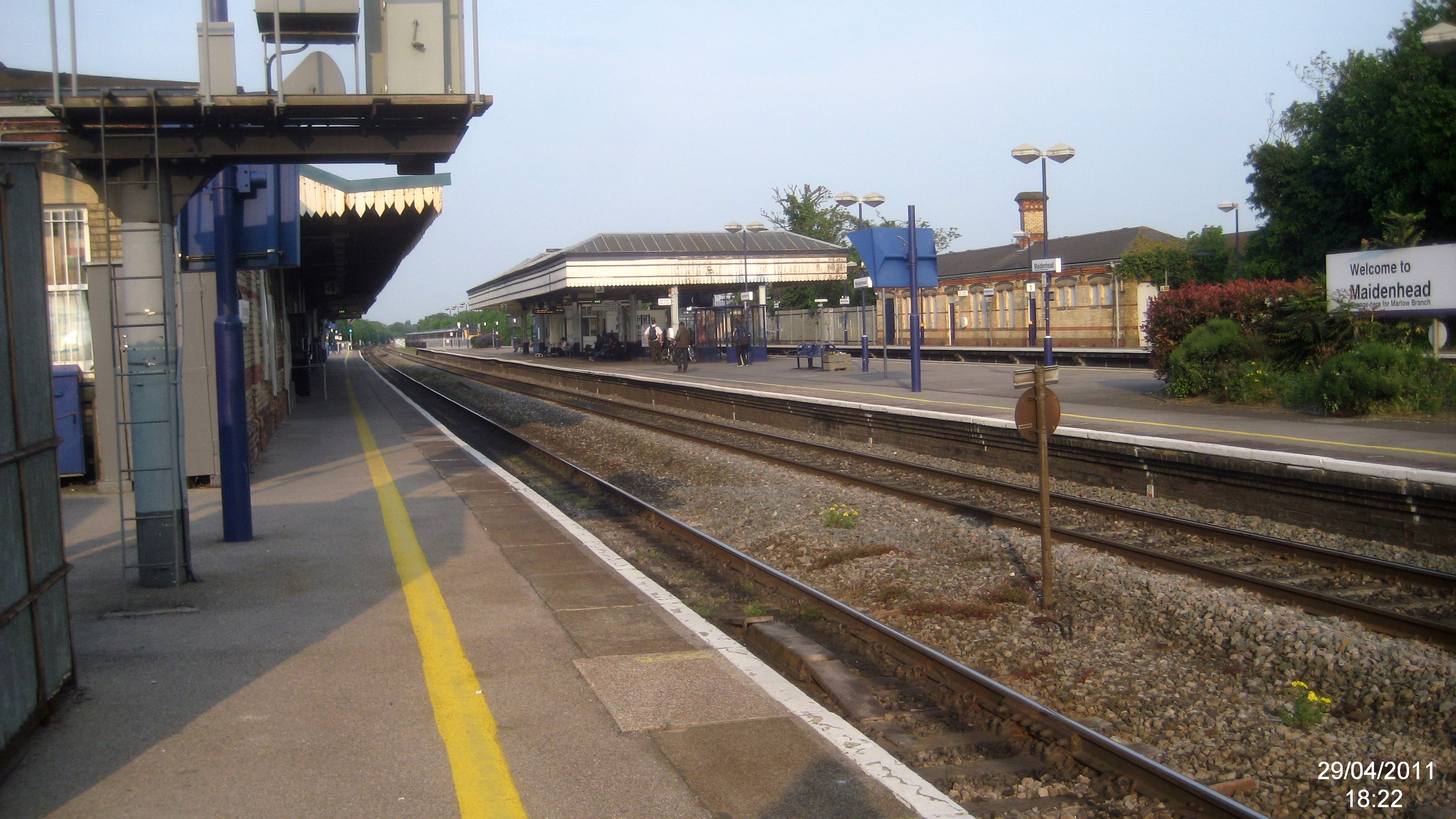 with Paddington train disappearing in the distance.